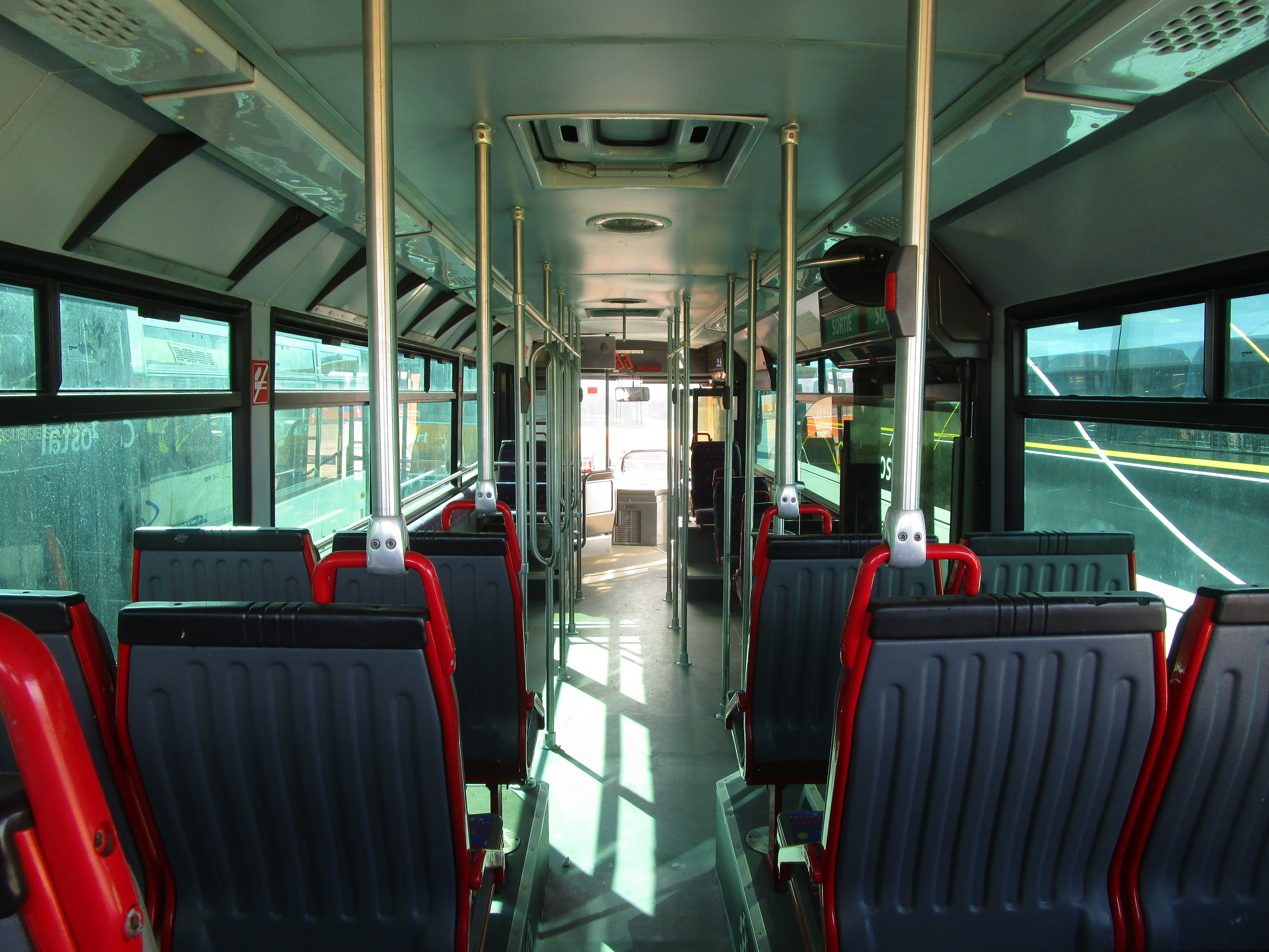 The interior of an Heuliez GX 107 (n°199 of CarPostal Agde).